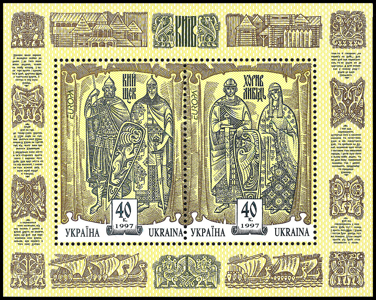 Stamps of Ukraine, 1997